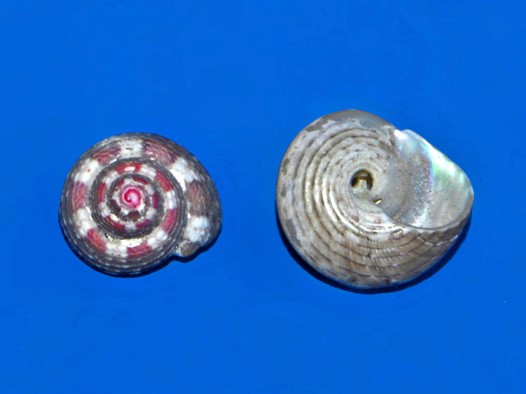 Shells of Gibbula ardens from Lazio, Italy at the Museo Civico di Storia Naturale di Milano